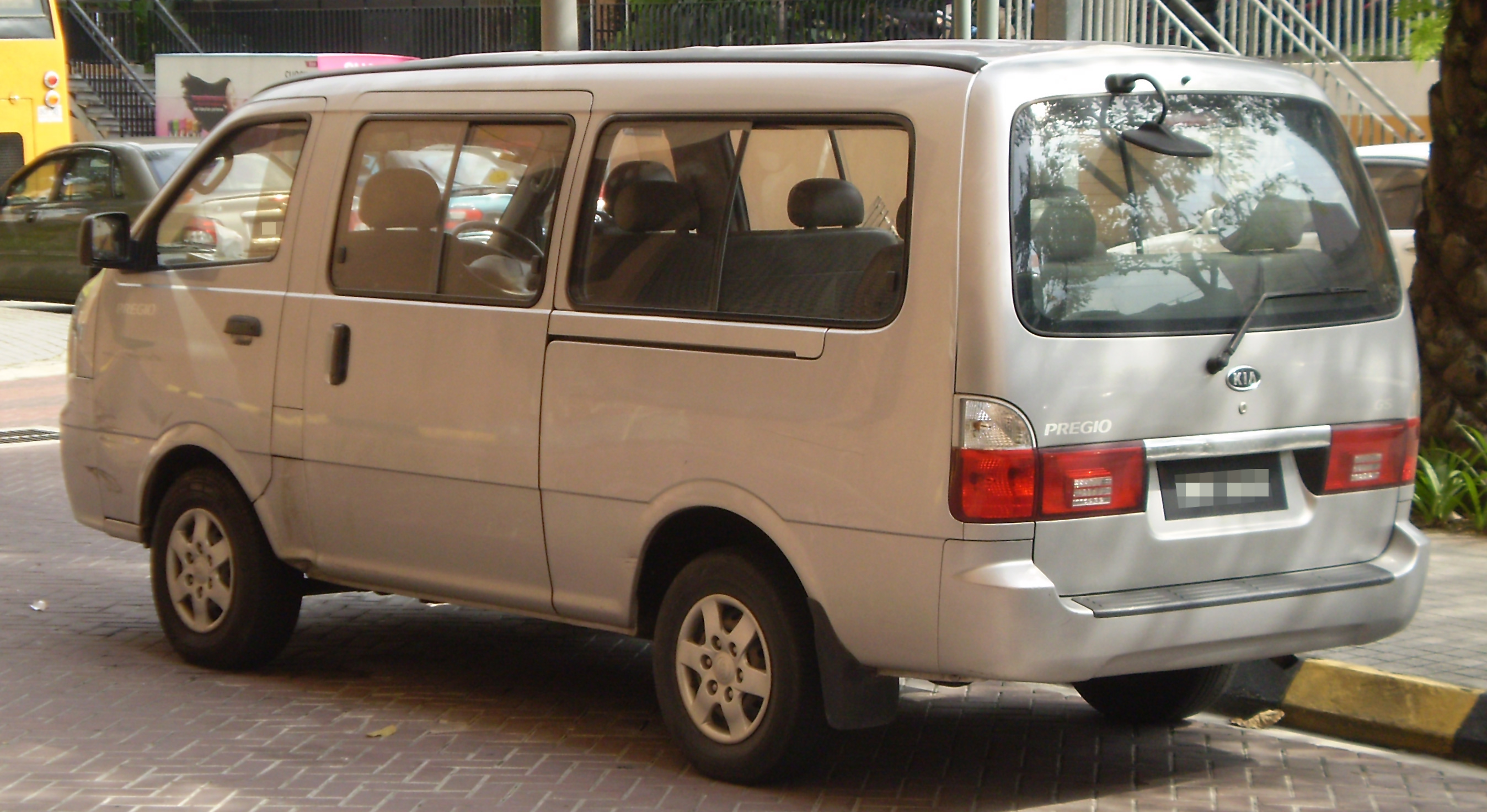 Rear quarter view of a second generation Kia Pregio, in Pudu, Kuala Lumpur, Malaysia.